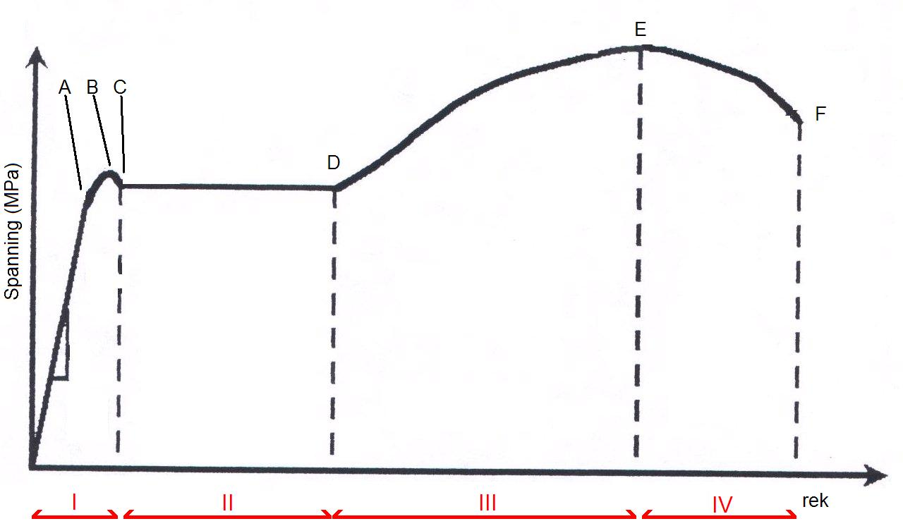 Diagram of stress curve for soft steel.